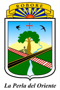 Shield of Robore